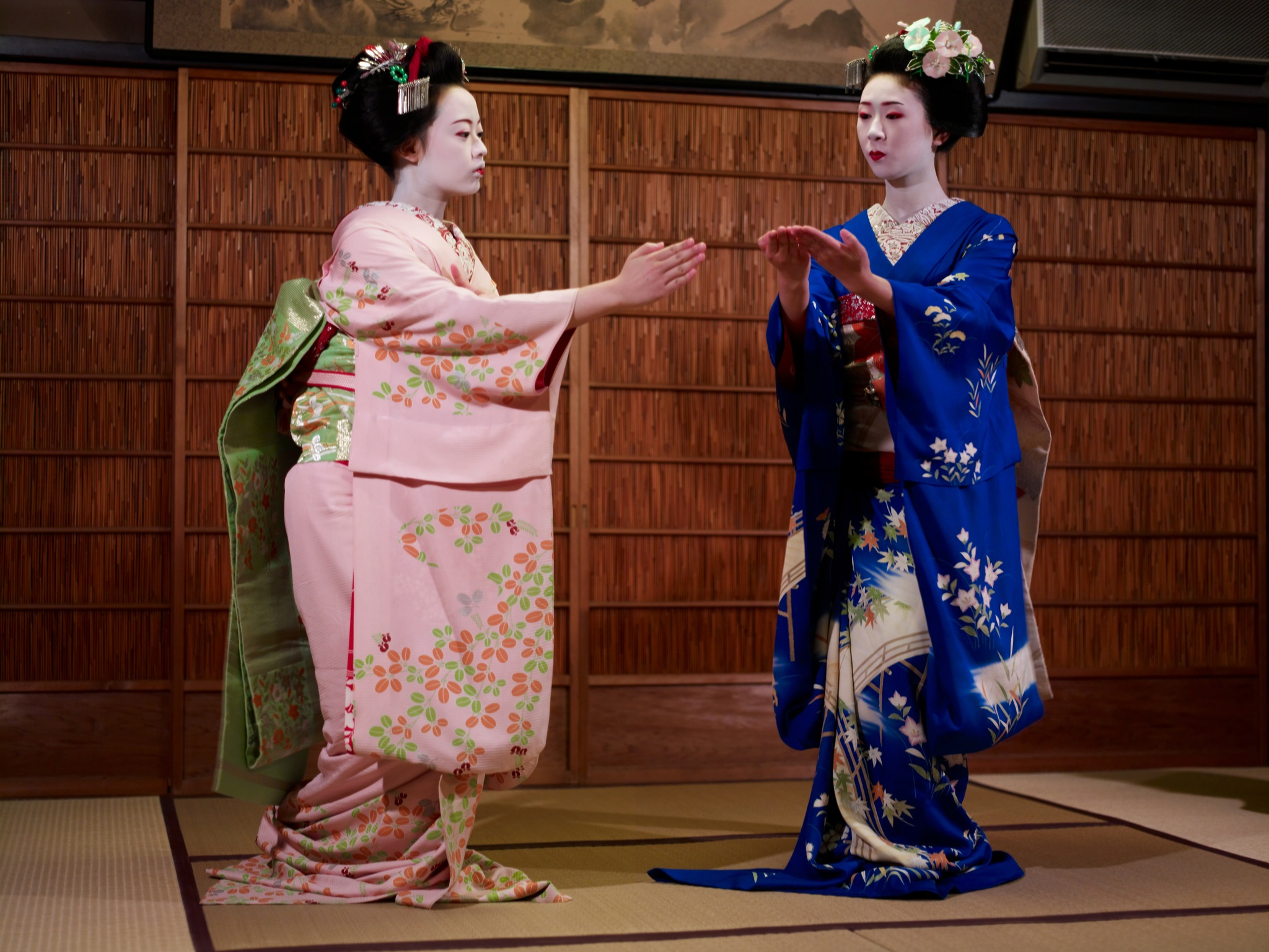 Maikos Katsumi (left) and Mameteru (right) performing Gion Kouta, cropped from original